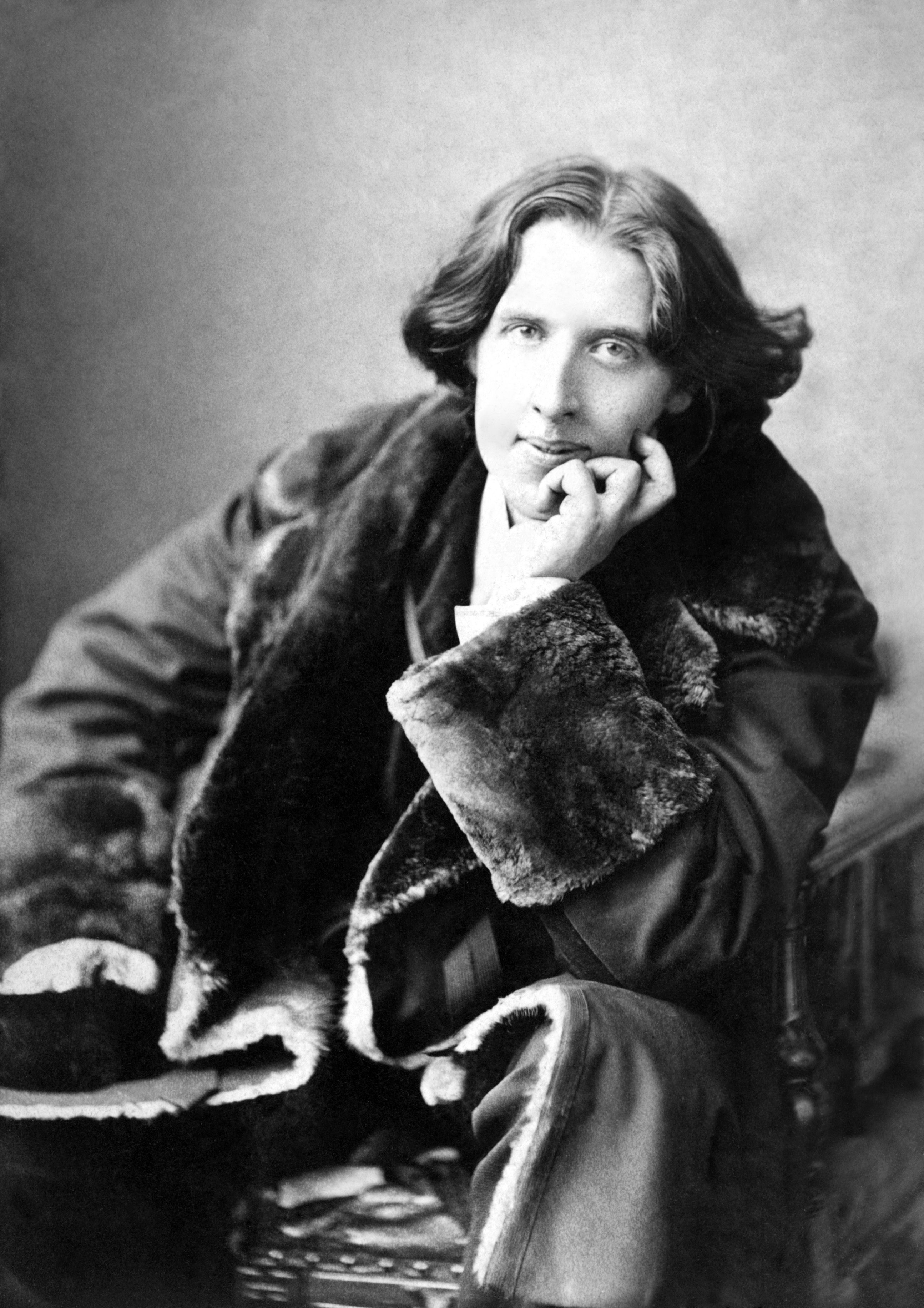 Oscar Wilde in his favourite coat. New York.